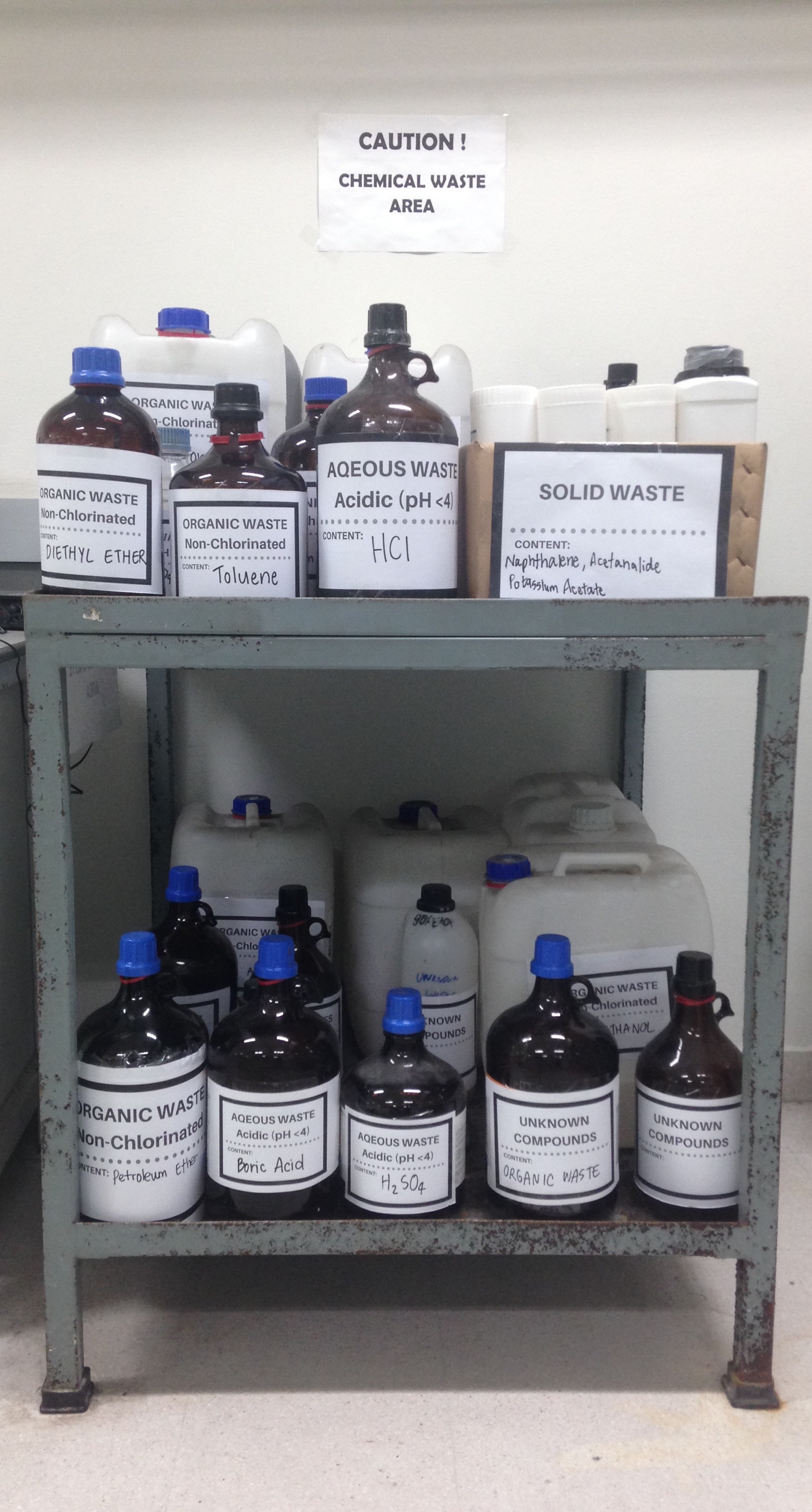 How to properly label, package, and store chemical waste safely.